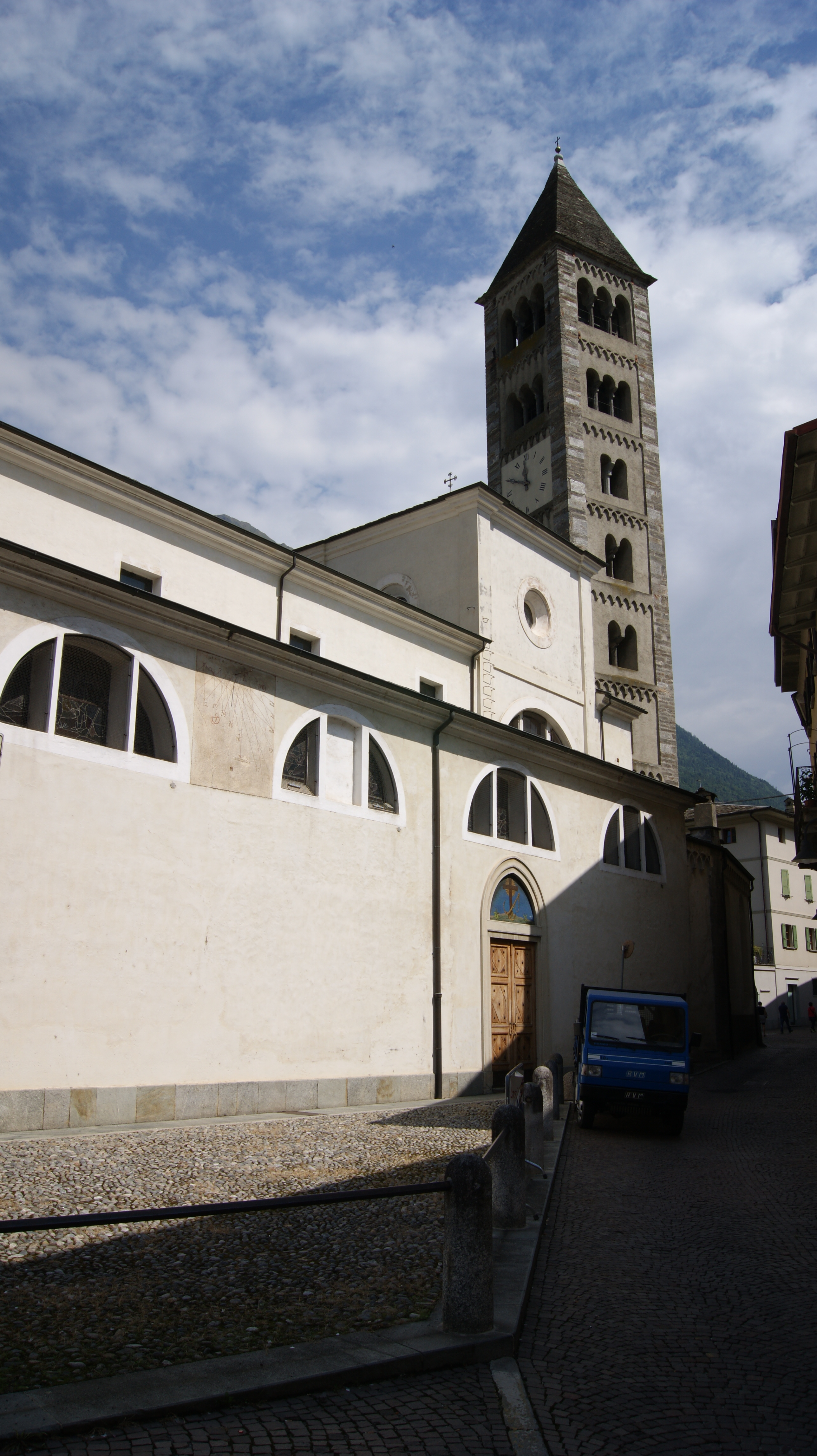 Parish church of San Martino (Chiese San Martino) in Tirano.